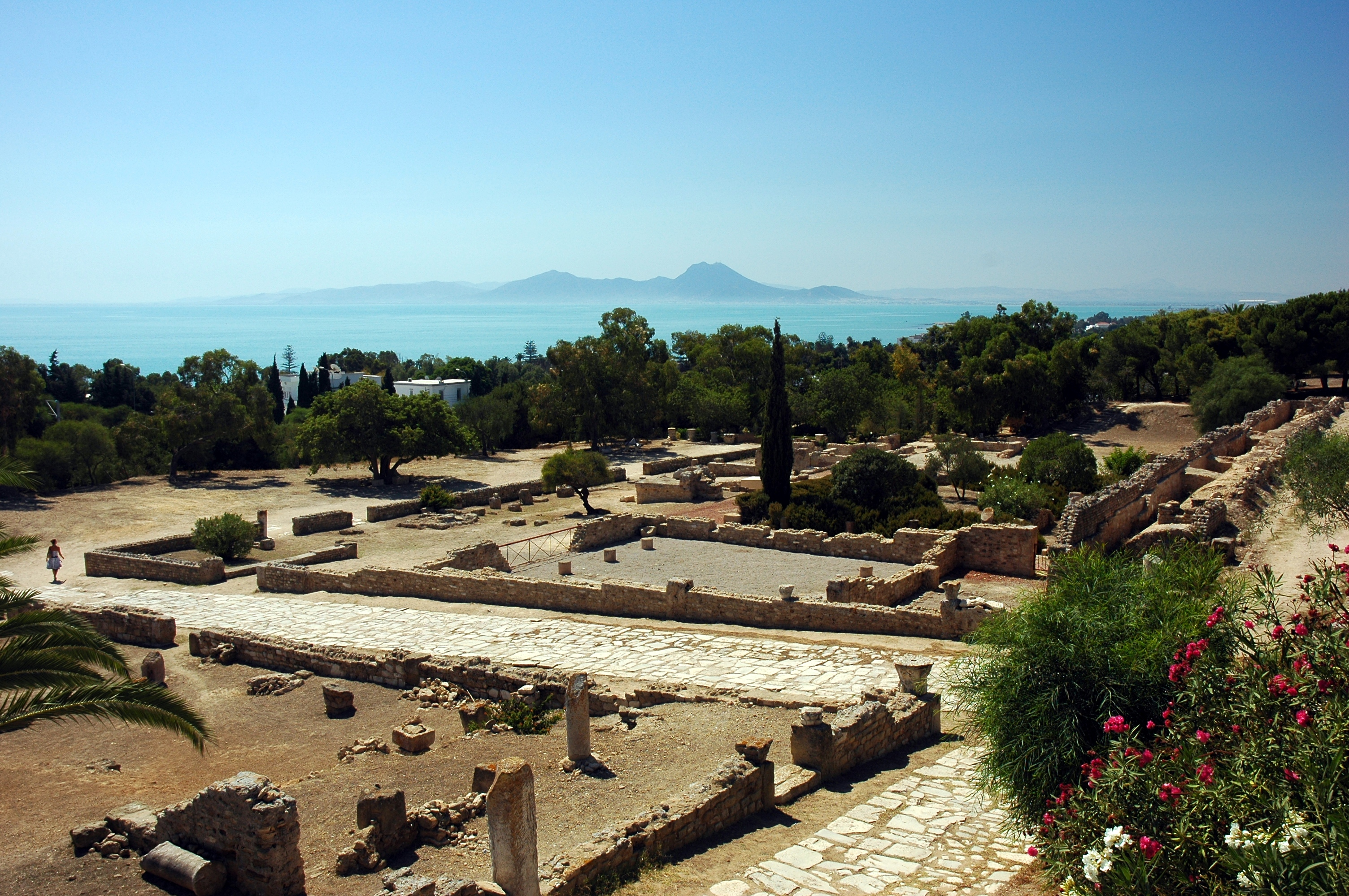 Tunisie Carthage Photographie prise par Patrick GIRAUD